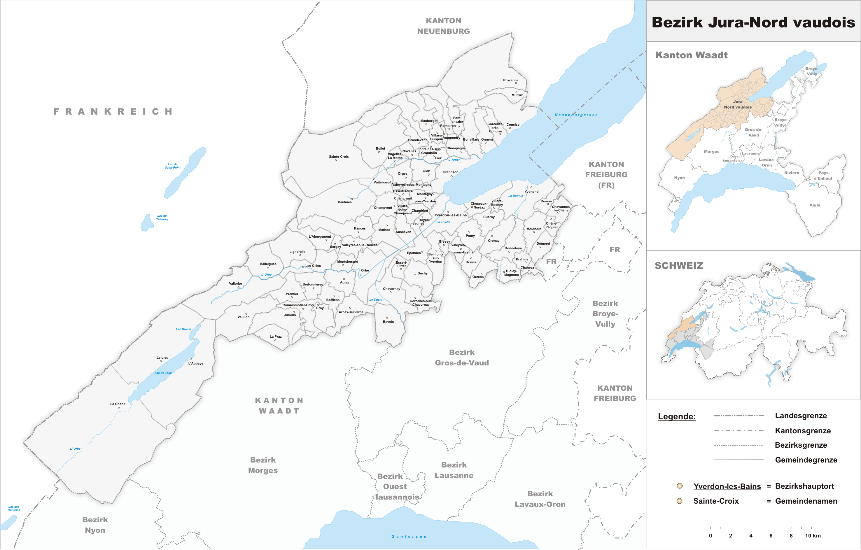 Municipalities in the district of Jura-Nord vaudois